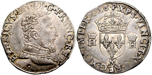 France. Henry II of France. 1547-1559. AR Teston (30mm, 9.42 gm). Toulouse mint. Dated 1556. HENRICVS II DEI G FRANC REX, bust right; pellets under bust and fifth letter XPS VINCIT XPS REG XPS IMPER 1556 P, crowned coat-of-arms flanked by crowned H's; P at end of legend, M below arms, dot under fifth letter. Cf. Duplessy 983; Ciani 1271 var. (1559); cf. Roberts 3502.